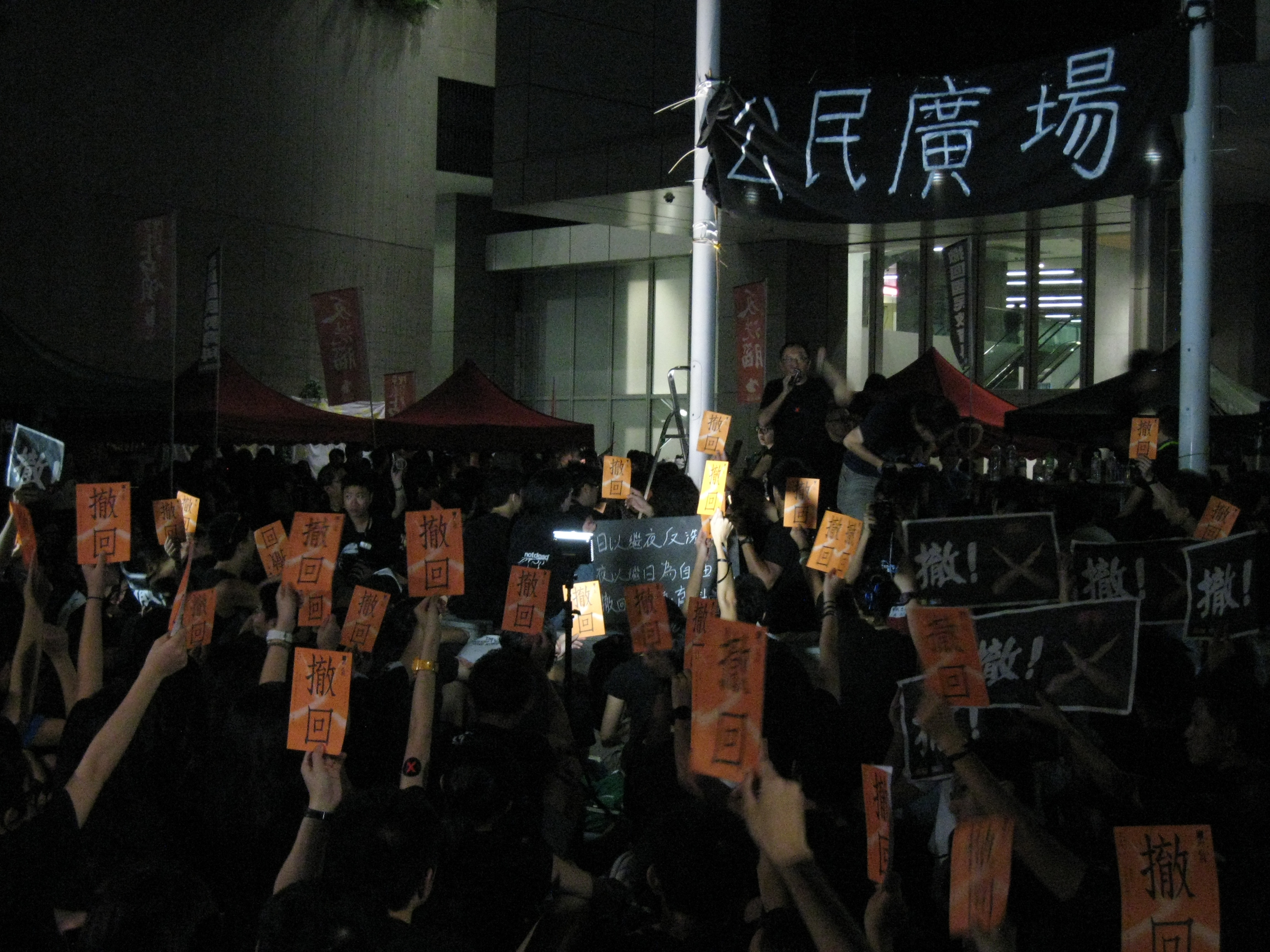 Hong Kong student group Scholarism and other people protest against national education in front of the government headquarters at Tamar in Hong Kong. (September 07, 2012)